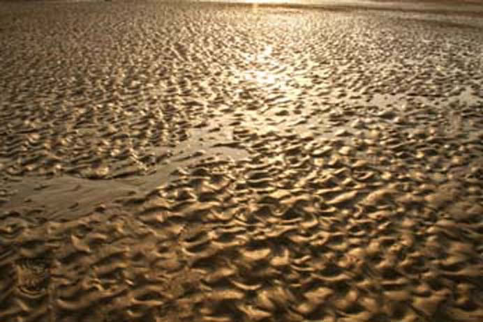 dunes